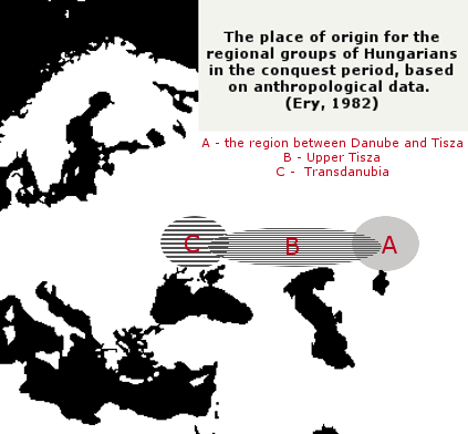 The place of origin for the regional groups of Hungarians based on Kinga Ery's researches (K. Éry Kinga 1982: Újabb összehasonlító statisztikai vizsgálatok a Kárpát-medence 6-12. századi népességeinek embertanához. Veszprém Megyei Múzeumok Közleményei 16: 35–118.)